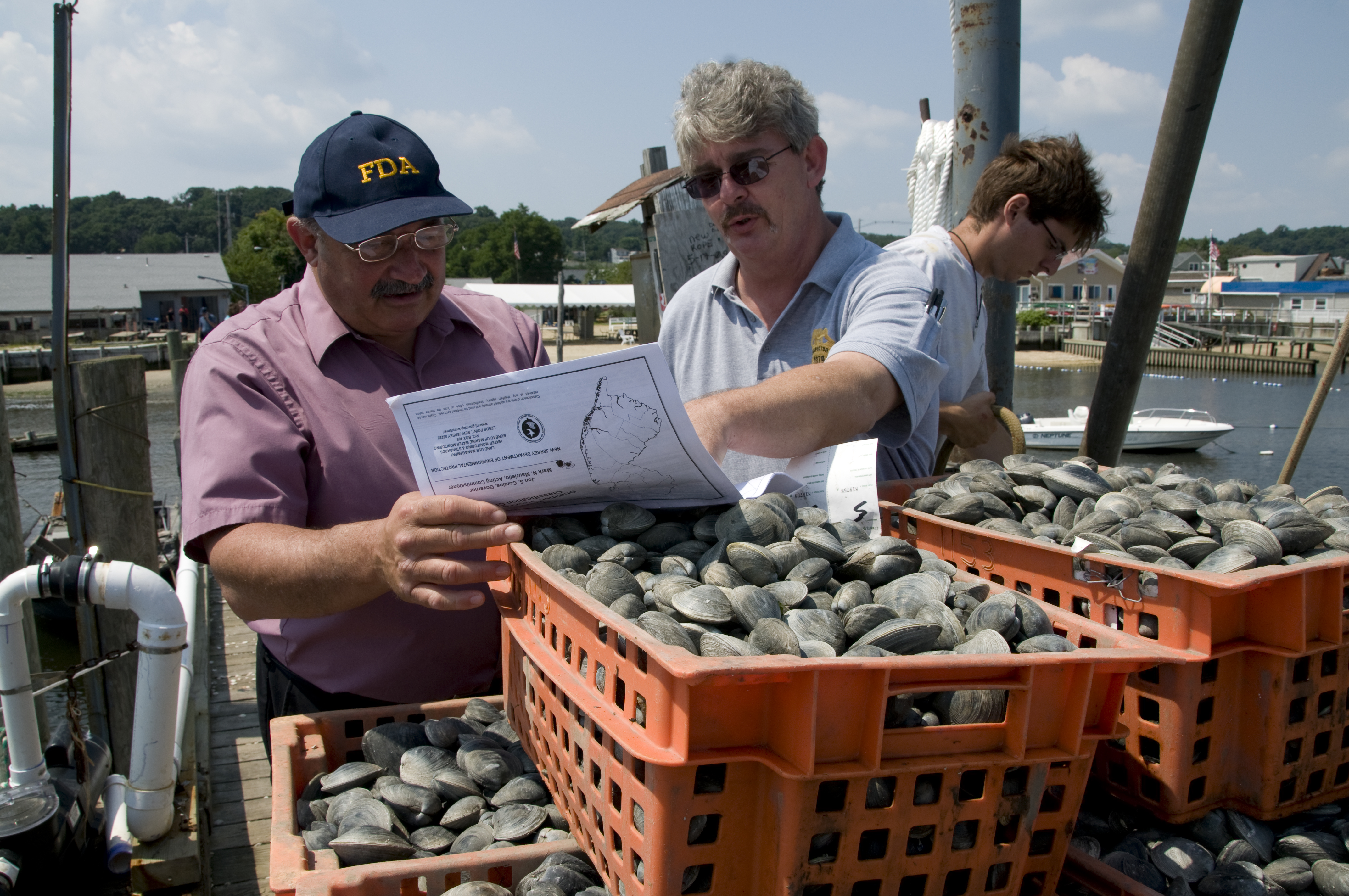 Aug. 4, 2009 – An FDA shellfish specialist (left) and a New Jersey state inspector look at a map of the waters where the clams in the foreground were harvested. The risks associated with eating raw or partially cooked shellfish are often related to the quality of water from which they are harvested. Slideshow: Article: To learn more about how FDA is helping to ensure seafood safety, read these Consumer Updates: Fish Hazards and Controls: More Than a Fish Story How FDA Regulates Seafood: FDA Detains Imports of Farm-Raised Chinese Seafood This photo is free of all copyright restrictions and available for use and redistribution without permission. Credit to the U.S. Food and Drug Administration is appreciated but not required. Privacy and use information: FDA photo by Michael J. Ermarth